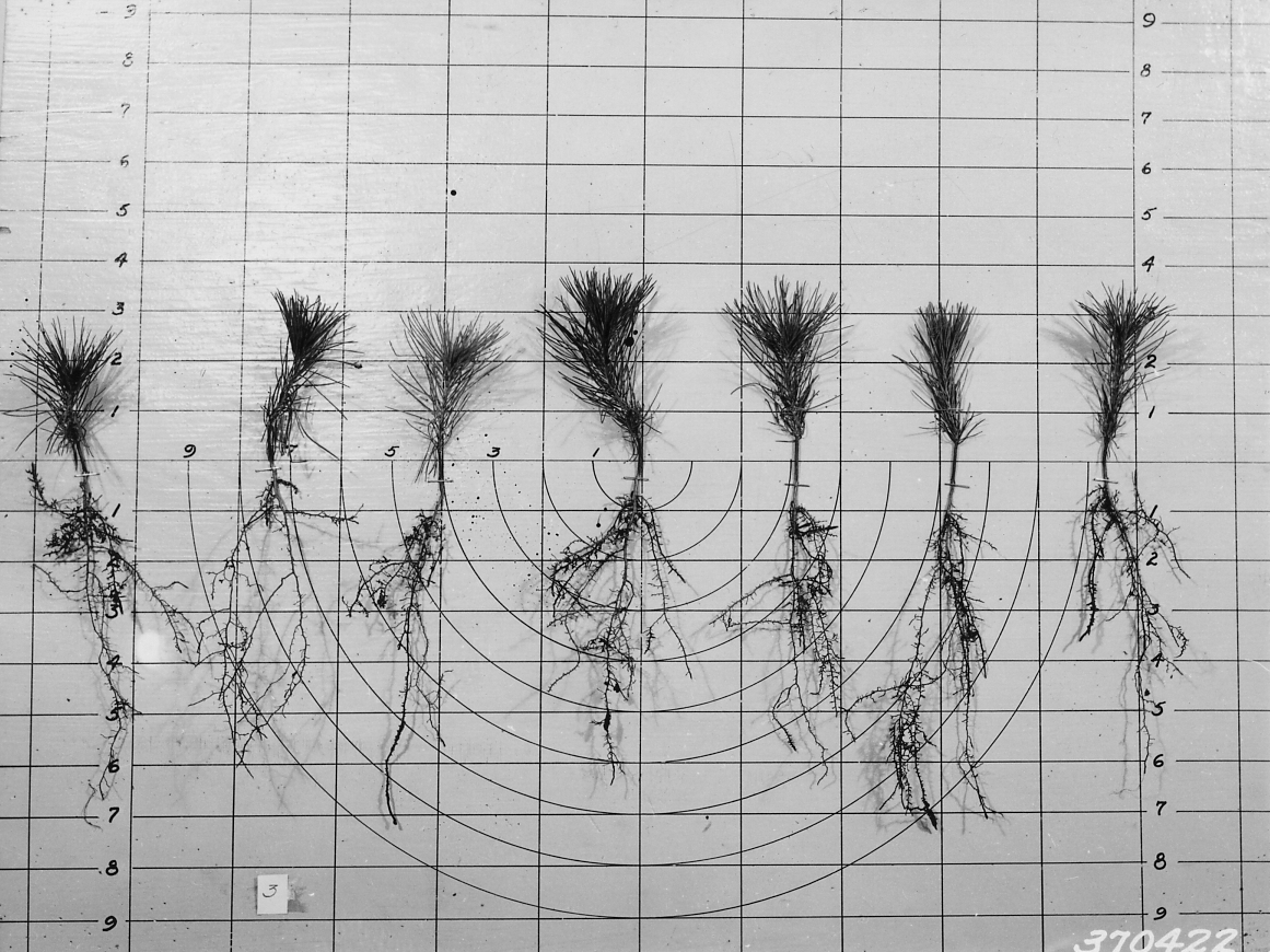 Scope and content: Original caption: Nursery stock, Cass Lake Nursery. 1-0 jack pine seedlings, specimen.